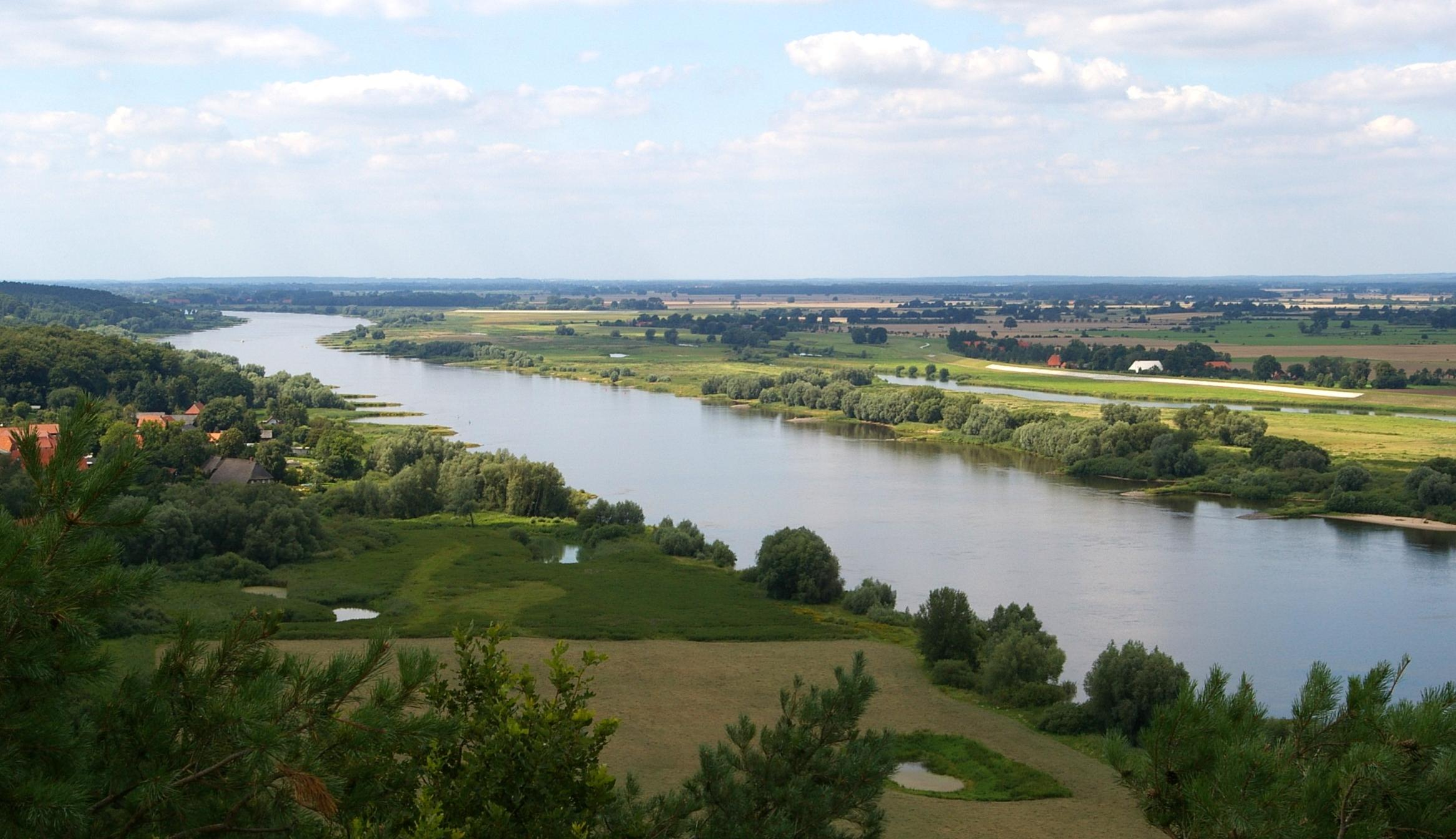 The Elbe at German river kilometre 530 (near Drethem - village left side). View downwards the river.